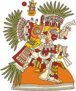 Tlahuizcalpantecuhtli, God of the Morning